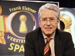 Frank Elstner in VSS?